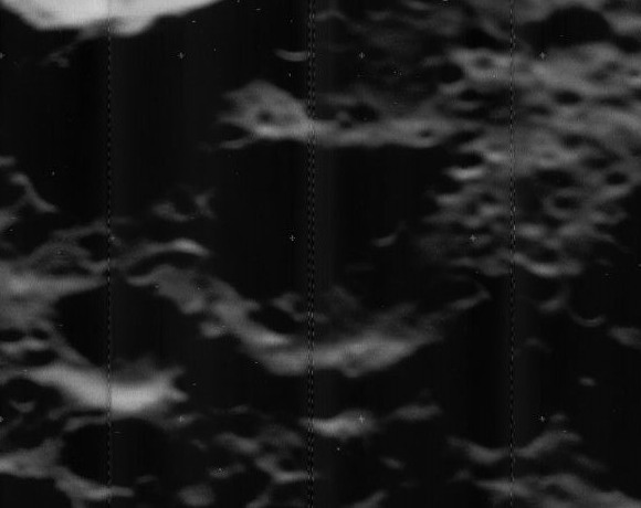 Oblique view of Bobone (center), on the far side of the moon, facing west.